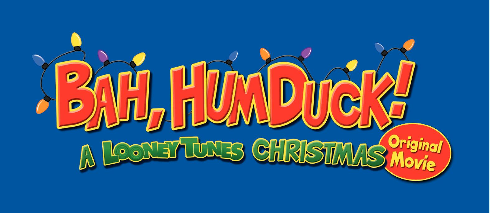 Title card for the Warner Bros. direct-to-video film, "Bah, Humduck! A Looney Tunes Christmas."